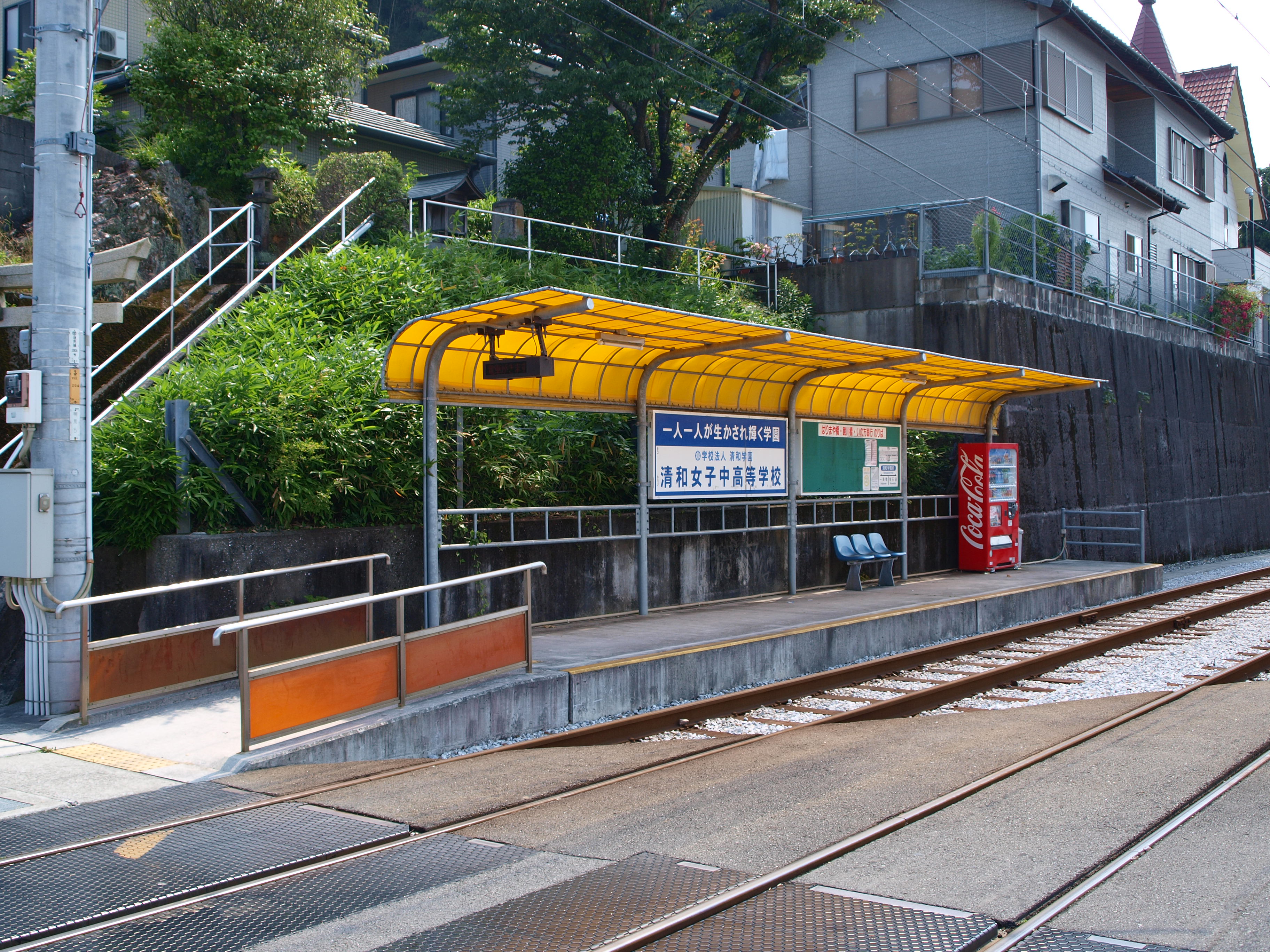 Tosa Electric Railway Seiwagakuen-mae station, Kochi, Japan